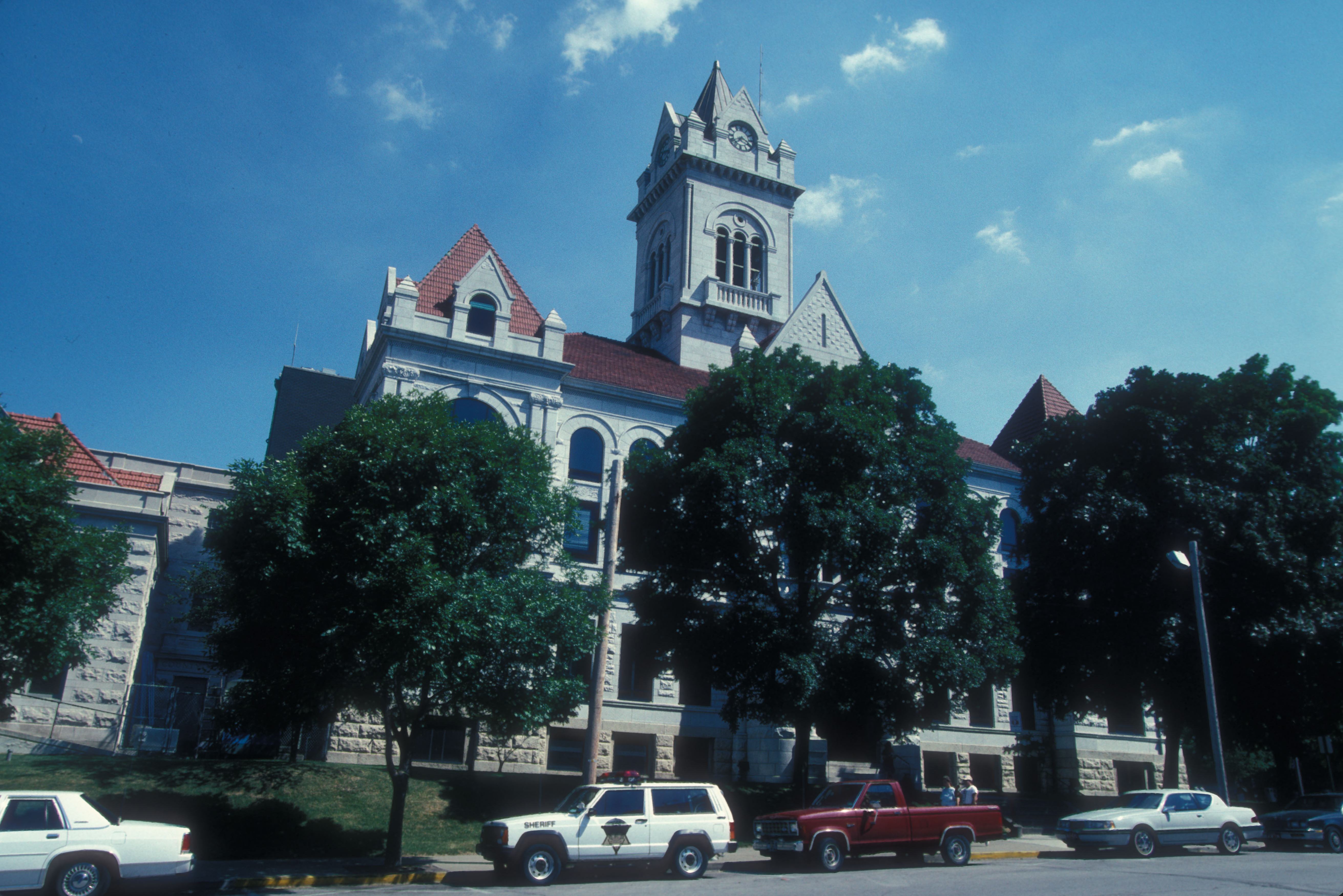 COLE COUNTY COURTHOUSE BUILT IN 1896; RICHARDSON ROMANESQUE